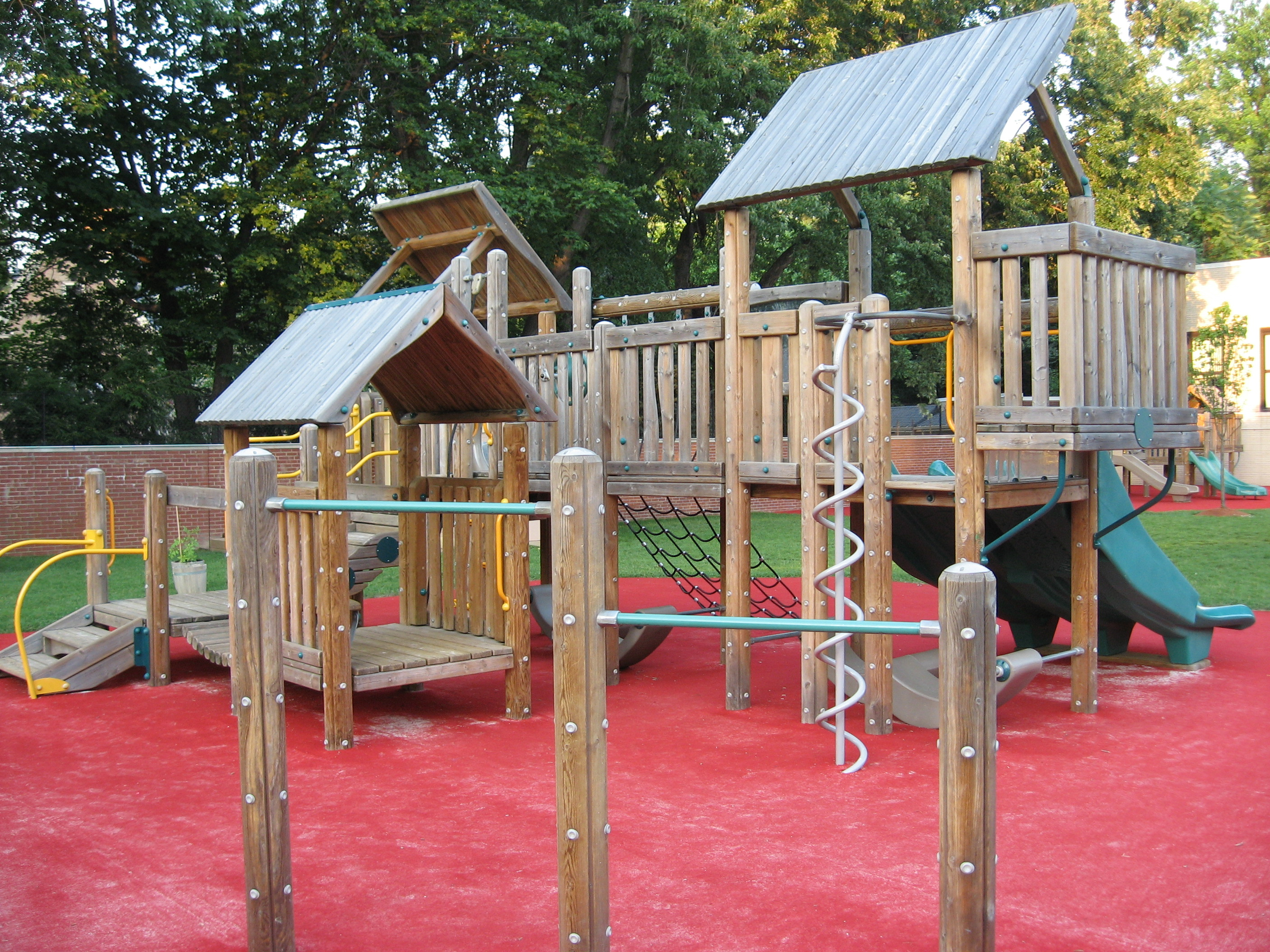 University Child Development Center playground at the University of Pittsburgh 40°26′54.9″N 79°56′43.5″W / 40.448583°N 79.945417°W